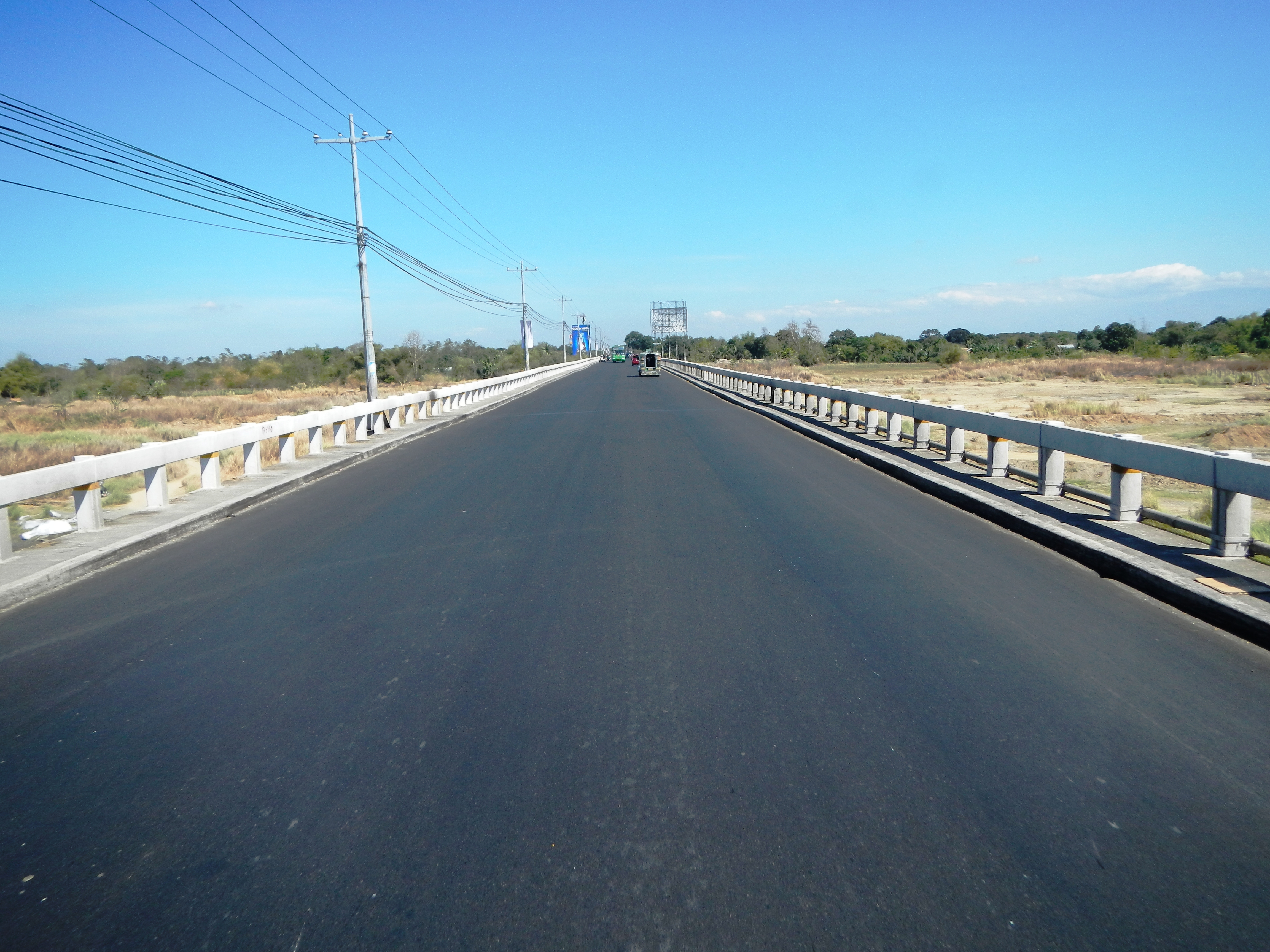 Carmen Rosales Central Transport Terminal Incorporated, Agno River in Don Teofilo Sison Bridge, Carmen, Rosales Pangasinan, highway: trunk lanes: 2 layer: 1 maxspeed: 80 ref: R-9 length of 0.57 kilometres named after Teofilo Sison February 29, 1880 – April 13, 1975 was a Philippine legislator), gateway to Urdaneta City, Pangasinan.